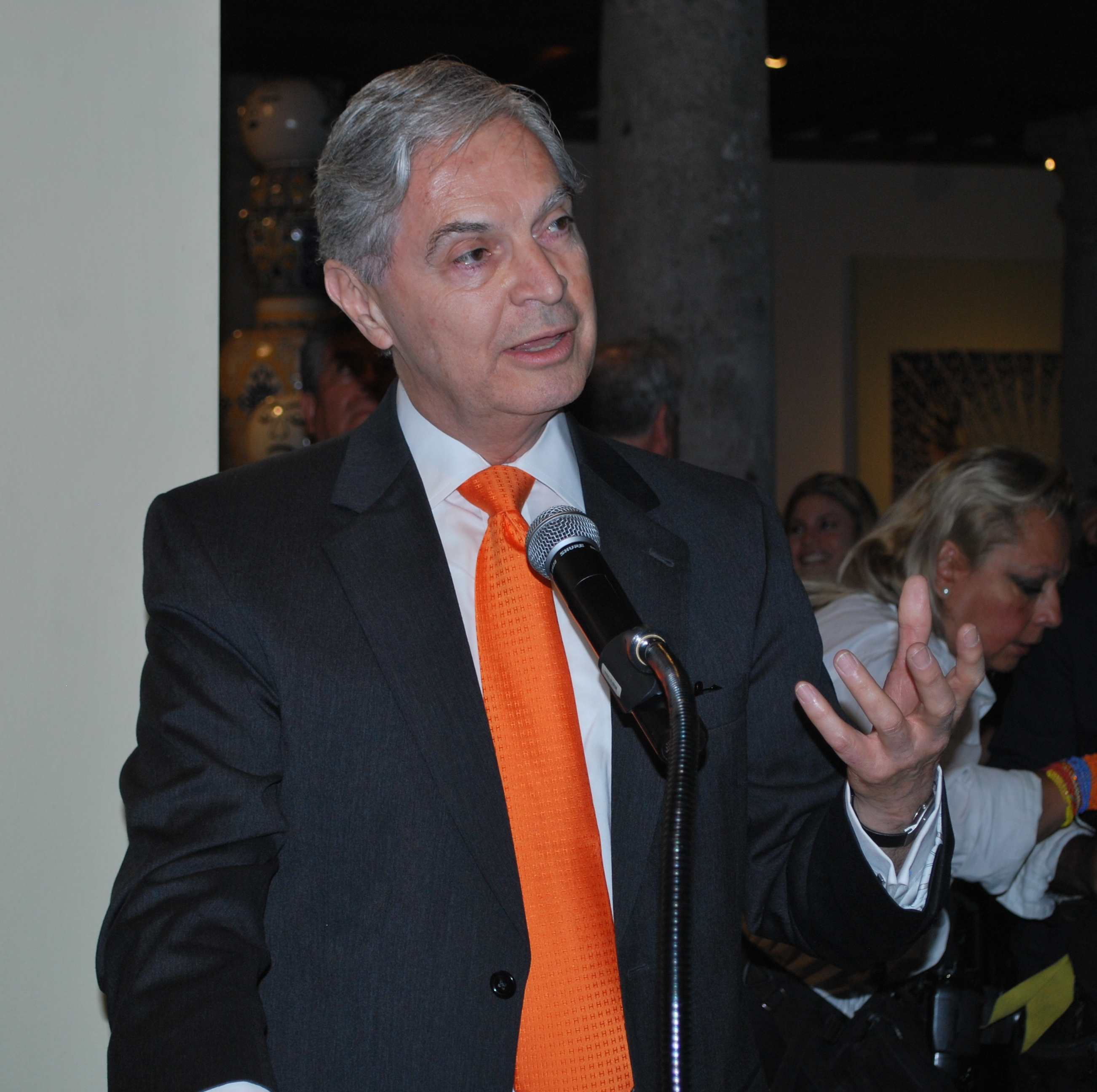 UDLAP director Luis Ernesto Derbez Bautista at the opening of El cinco de mayo de 1862. Uriarte Talavera Contemporánea at the Franz Mayer Museum